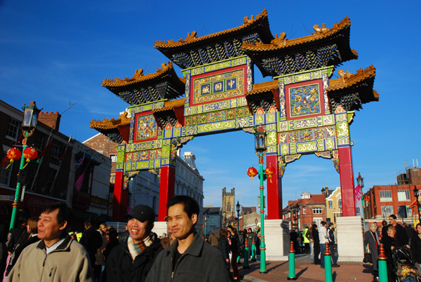 The Paifang in Chinatown in Liverpool, reputedly the largest in the world outside of China. Chinatown during Chinese new year celebrations. Chinatown, Liverpool.